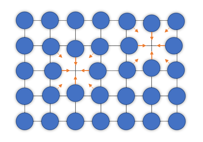 The orange arrows indicate direction and extent of the displacement, from their original positions in the lattice, of the atoms surrounding the vacancies (they are somehow attracted because of the lack of repulsion due to the absent atom); the dashed lattice helps the reader to detect such displacement.